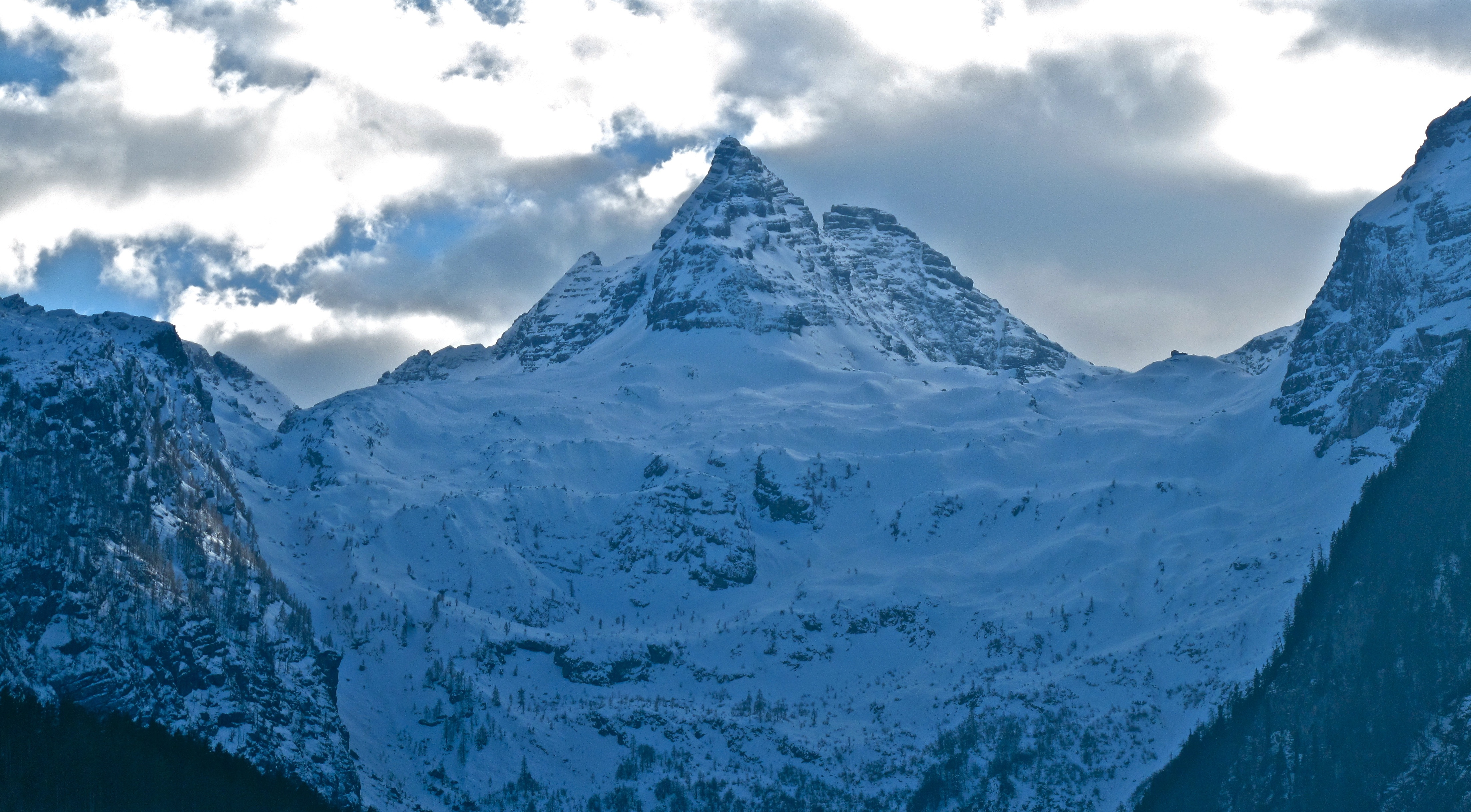 Loferer Steinberge